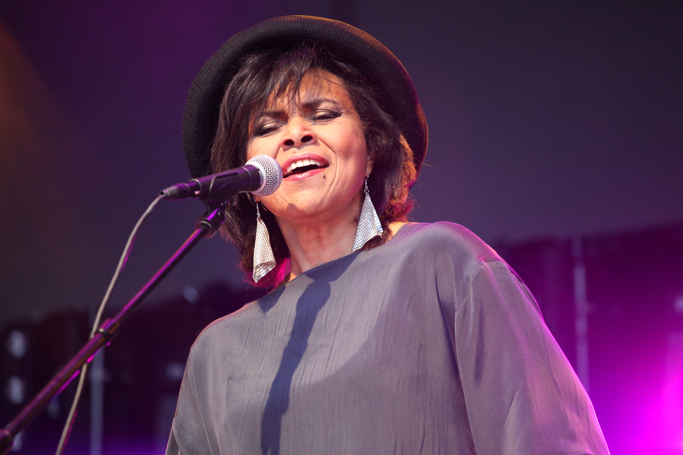 Sharon Robinson performing in Malmoe, Sweden 19 august 2016during the yearly week-long townfestival.